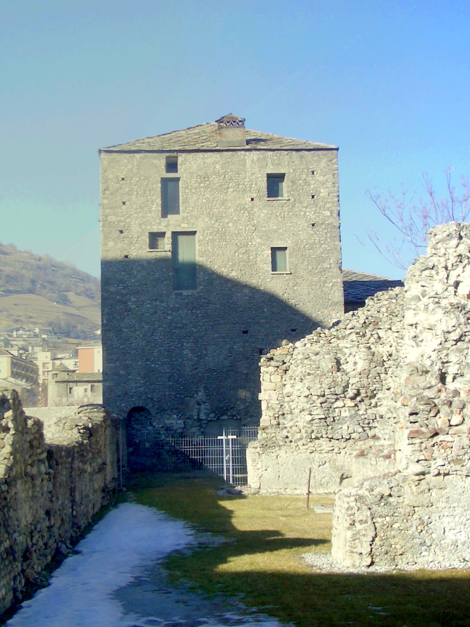 Aosta, Tour Fromage (near the roman theatre) - sud facade